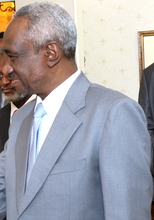 U.S. Secretary of State Hillary Rodham Clinton shakes hands with Sudanese Vice President Ali Osman Taha after their bilateral meeting at the Waldorf-Astoria in New York, New York, on September 21, 2010. [State Department photo/ Public Domain]